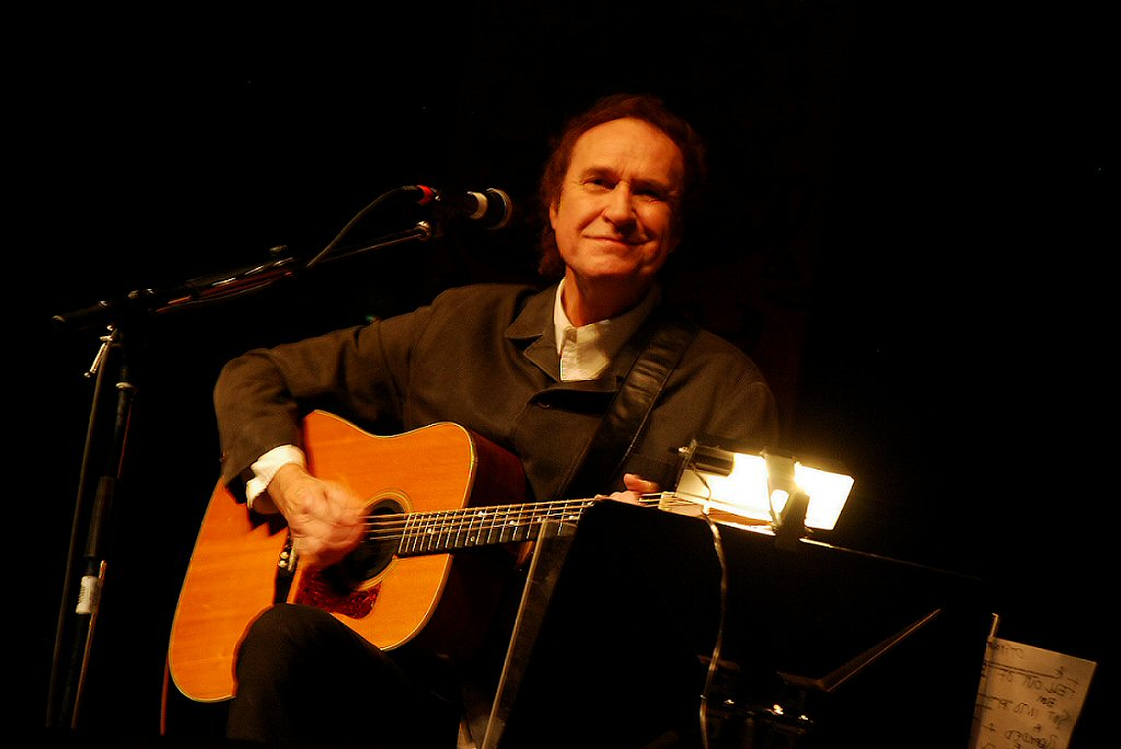 Ray Davies played an acoustic set to a loyal audience, ages varying from as young as 17 to 65 at Bluesfest in Ottawa. Telling stories between and during songs, everyone was charmed by his wit and sense of drama for an absolutely memorable evening. Please email me at when using this photograph. Thanks!